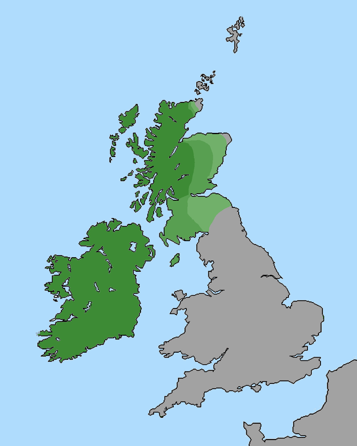 The Gaelic world Gàidhlig: An t-Saoghal Gàidhealach